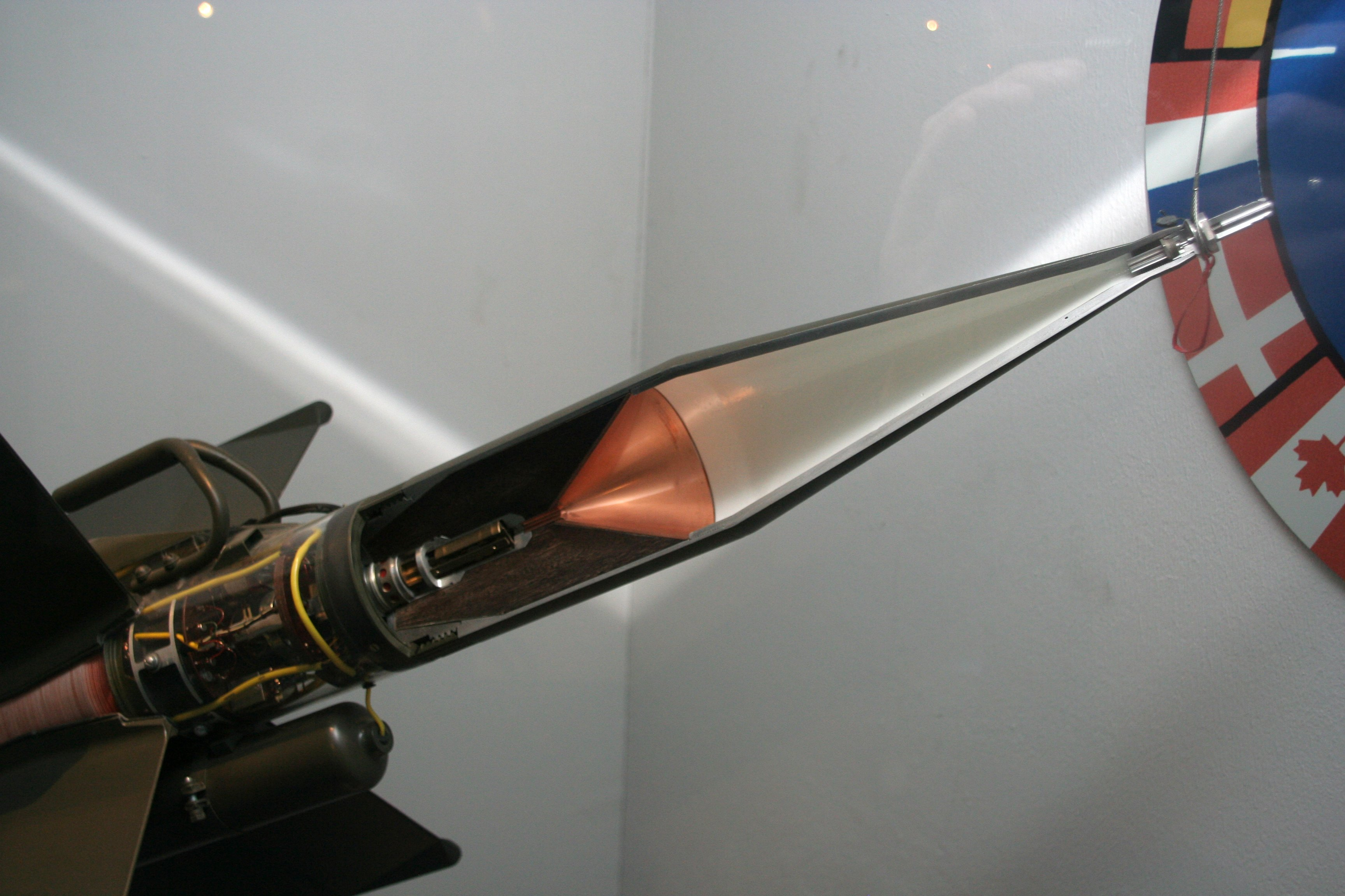 MBB COBRA guided anti tank missile from 1954 Photographed in Deutsches Museum Bonn